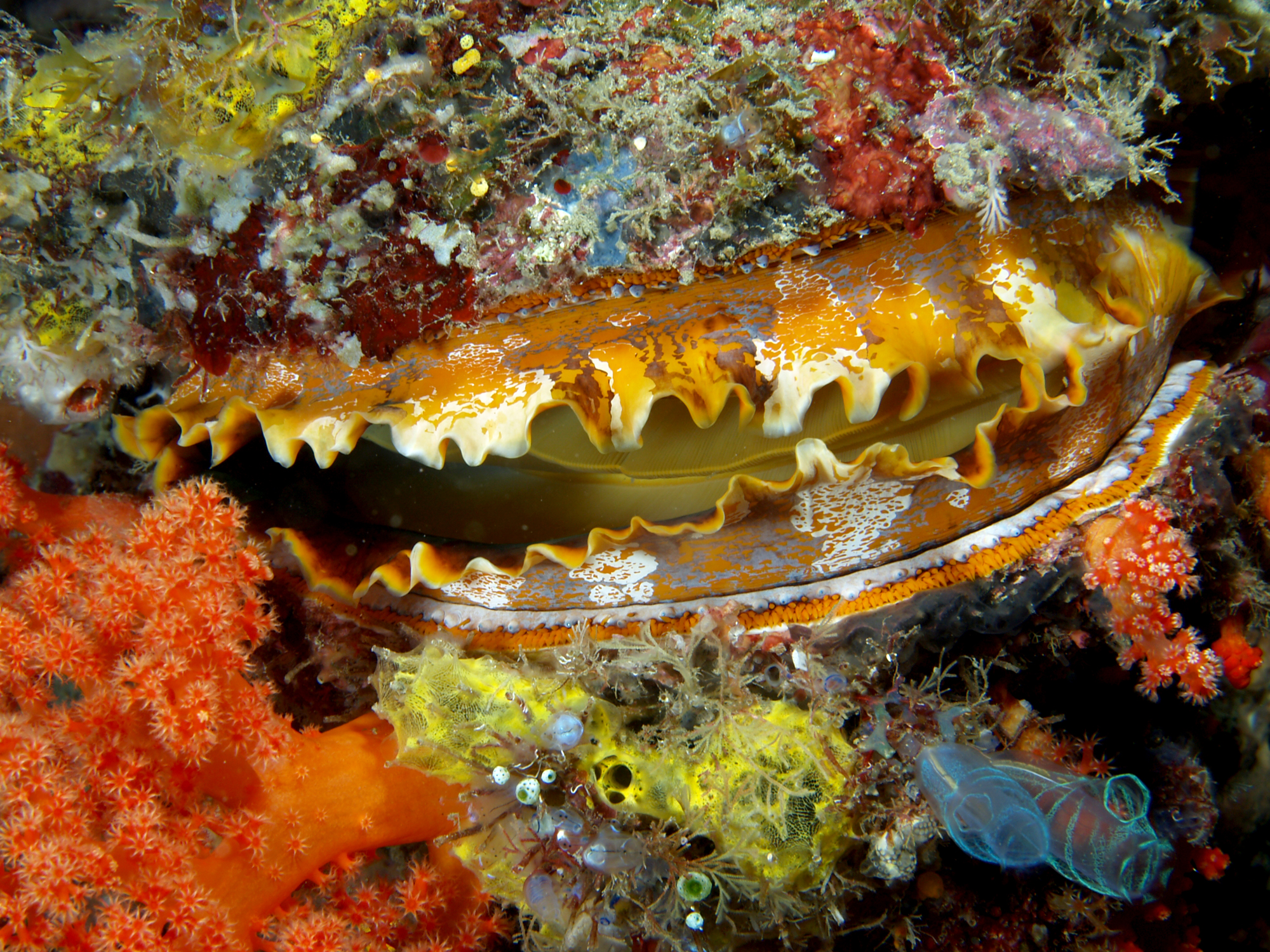 Spondylus varians (Thorny oyster) with soft coral (East Timor)